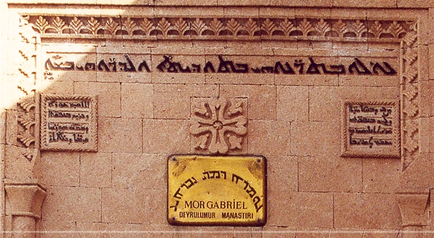 Aramaeic inscriptions over the portal of Mor Gabriel monastery in Midyat, Turkey.